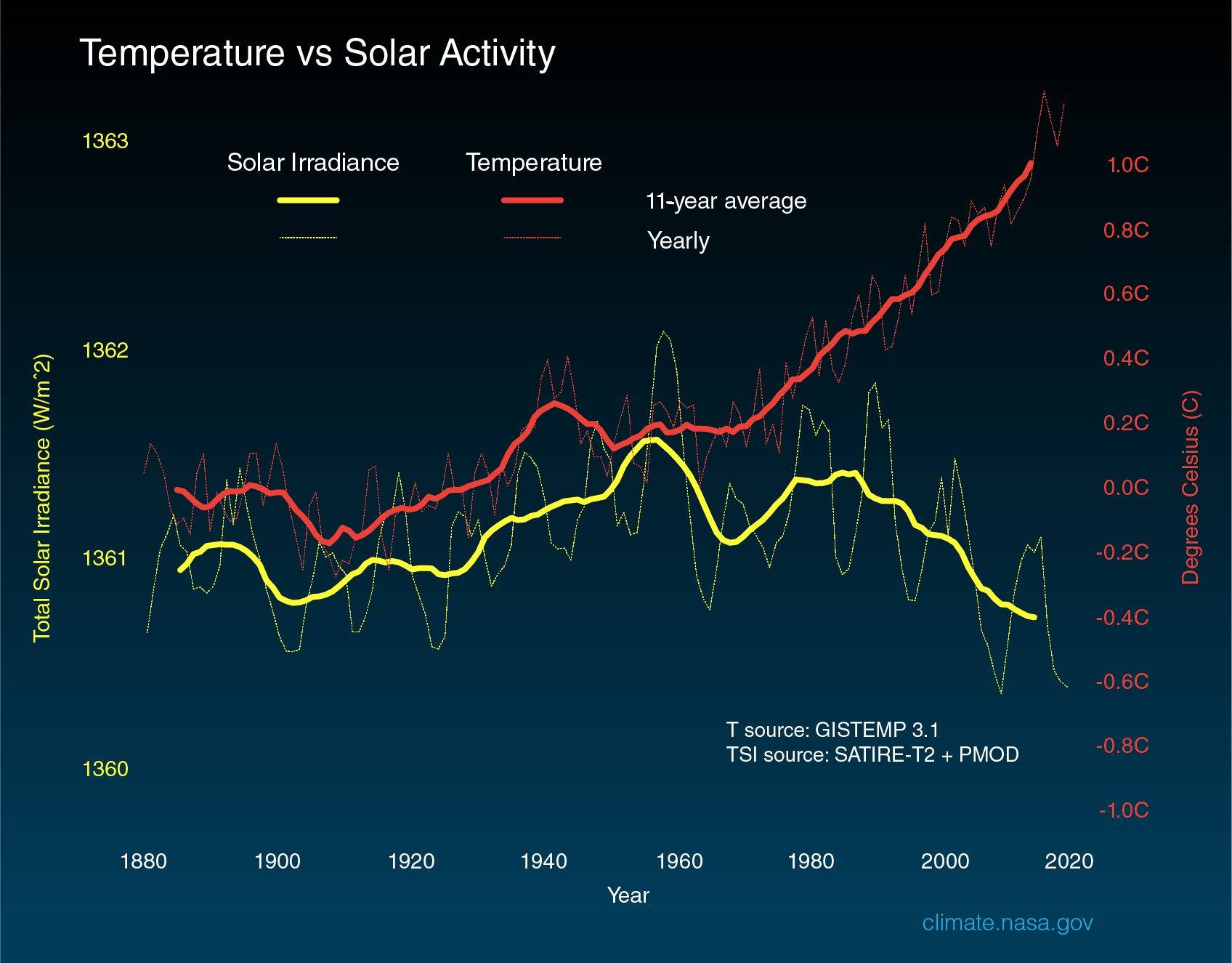 A graph containing the global temperature, as computed by the Goddard Institute for Space Studies (GISTEMP3.1) plotted with the solar irradiance. The solar irradiance before 1978 is from a reconstruction (2007). "Reconstruction of solar total irradiance since 1700 from the surface magnetic flux". Astronomy & Astrophysics 467. and afterwards directly from satellite measurements done by the Physikalisch-Meteorologisches Observatorium. The graph shows that solar irradiance has not increased with the temperature since the mid-20th century. Credit NASA/JPL-Caltech